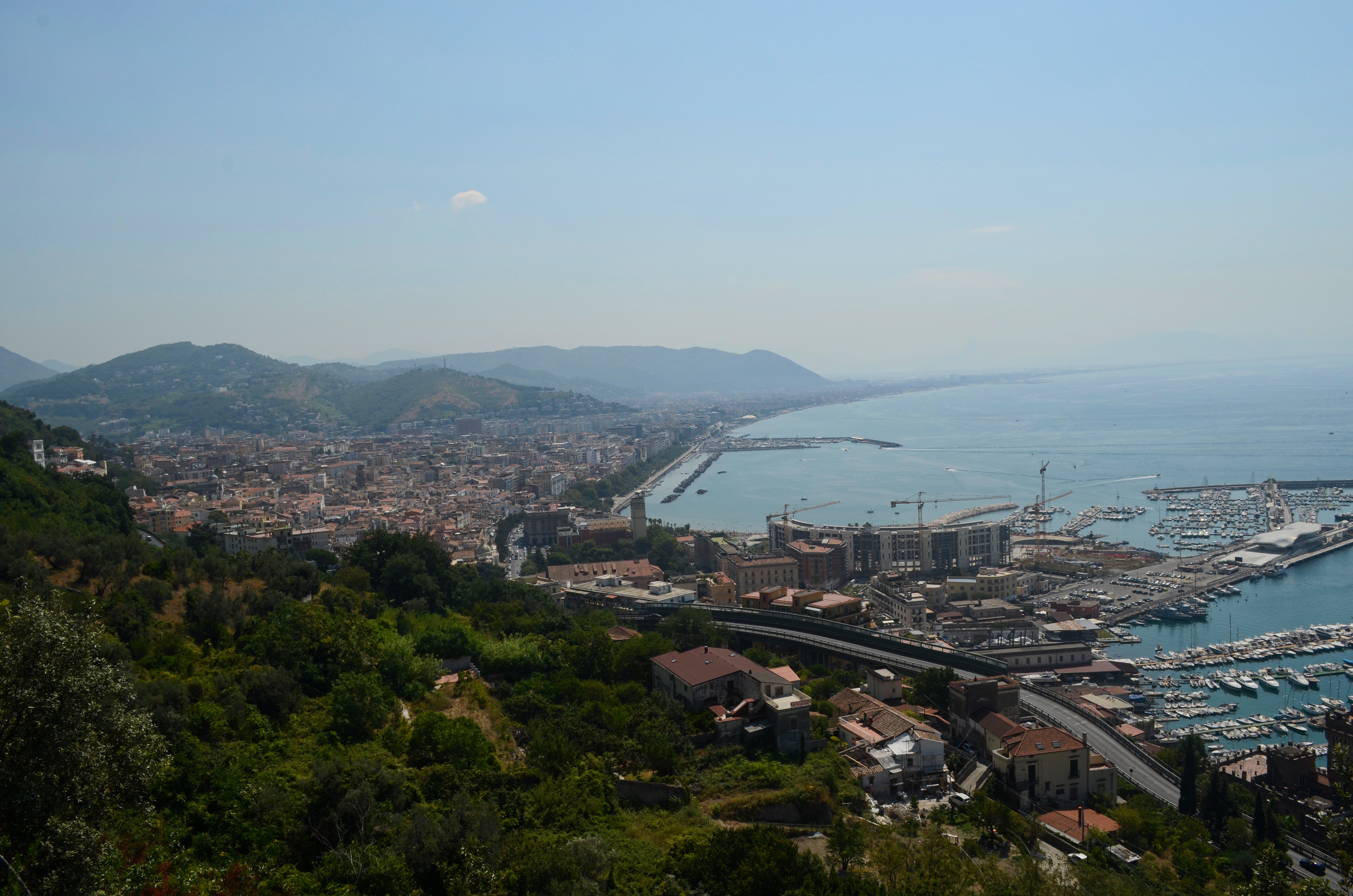 View downwards on Salerno, Italy, at daytime, 2015-08-08